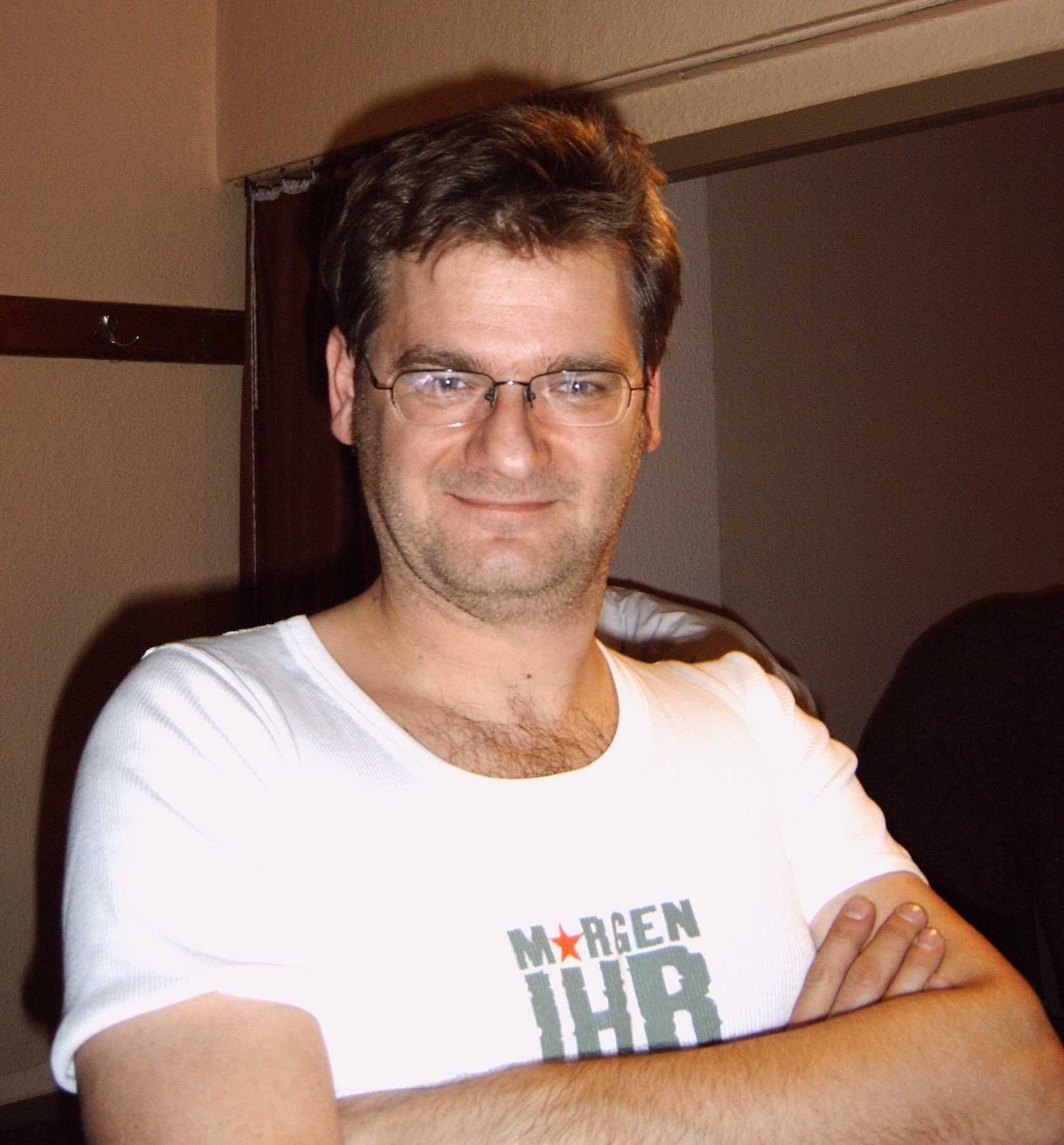 Photo of the German Comedian Holger Müller, aka "Ausbilder Schmidt". I took the picture mayself after the "Hot Banditos"-Show in Flonheim, Germany, on December 9th, 2005.